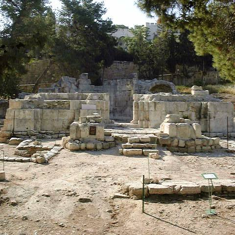 Emmaus Ncopolis Byzantine Basilica restored upon a smaller scale by crusaders